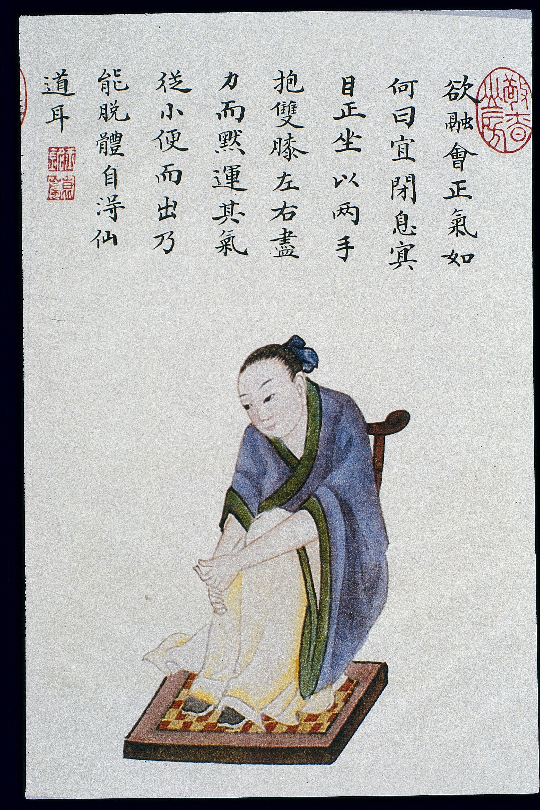 Illustration of 'Technique for assimilating Normal Qi' (zheng qi), finely executed colour painting fromDaoyin tu(Diagrams of Therapeutic Movement [daoyin]), by Kun Lan (Qing period, 1644-1911), MS dated 1875 (1st year of the Guangxu reign period of the Qing dynasty).Daoyin tucontains explanations and illustrations of 24daoyintechniques. They comprise 9 seated techniques, 6 standing techniques, 6 recumbent techniques, 2 squatting techniques, and one kneeling technique. Painting in colour